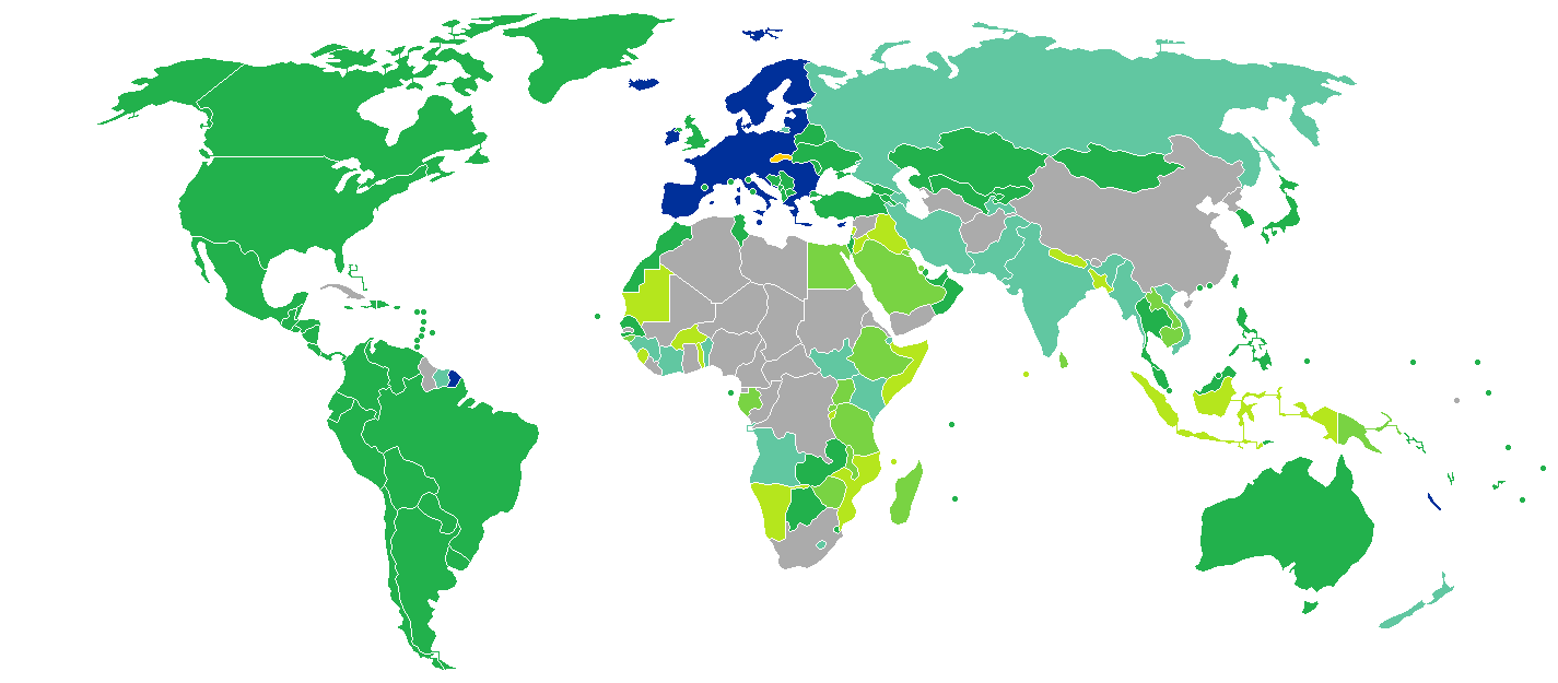 Visa requirements for Slovak citizens Slovakia Freedom of movement Visa not required Visa on arrival eVisa Visa available both on arrival or online Visa required prior to arrival